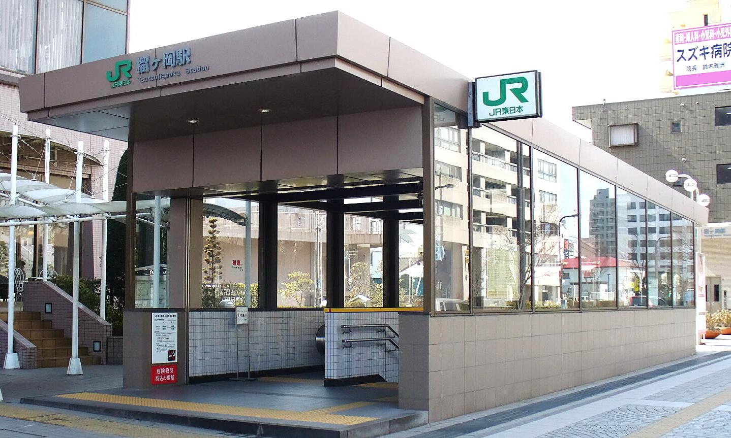 The entrance to Tsutsujigaoka Station on the Senseki Line in Miyagi Prefecture, Japan